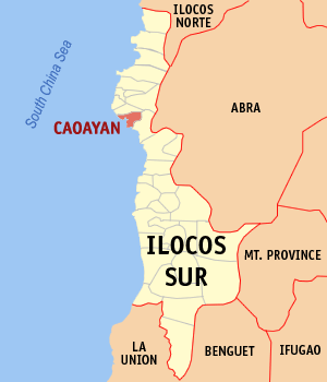 Map of Ilocos Sur showing the location of Caoayan